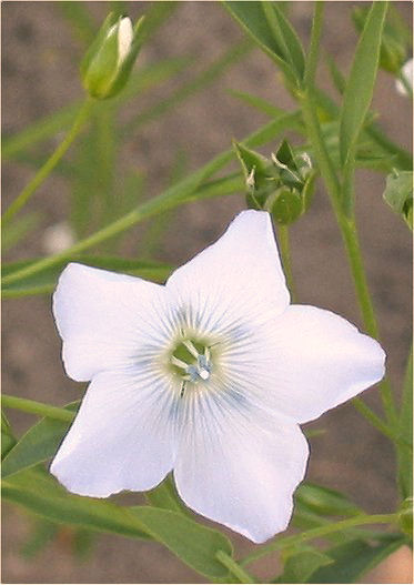 Linum usitatissimum